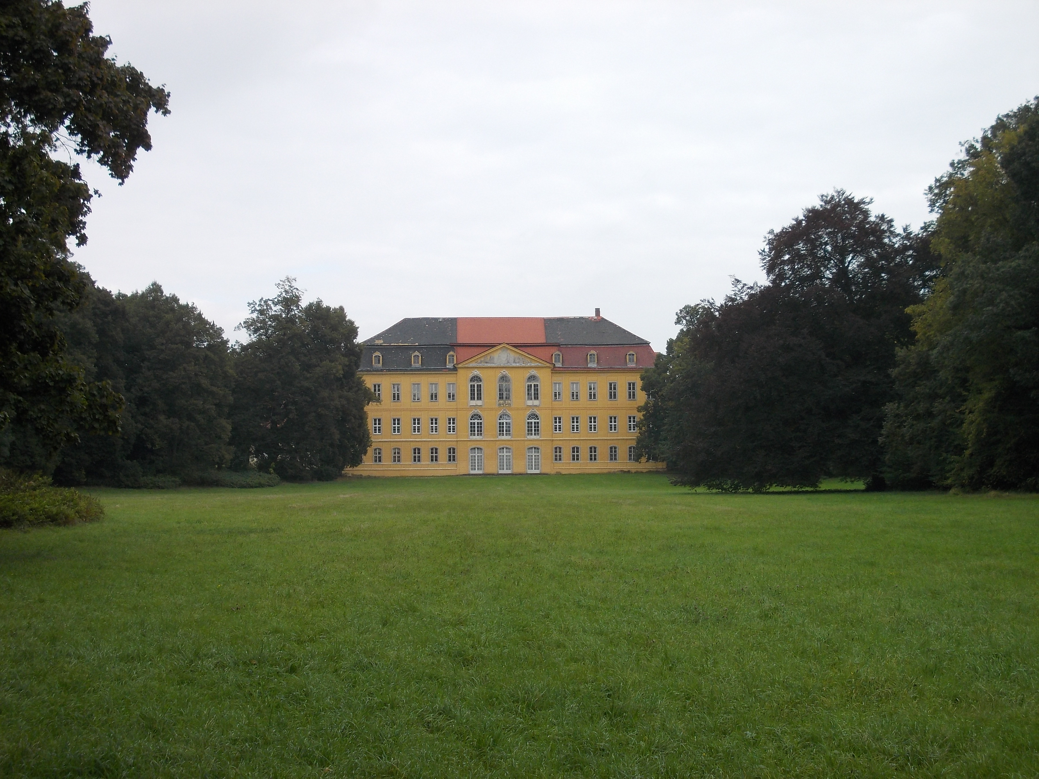 Nischwitz Castle (Thallwitz, leipzig district, Saxony) with bowling green of the castle gardens